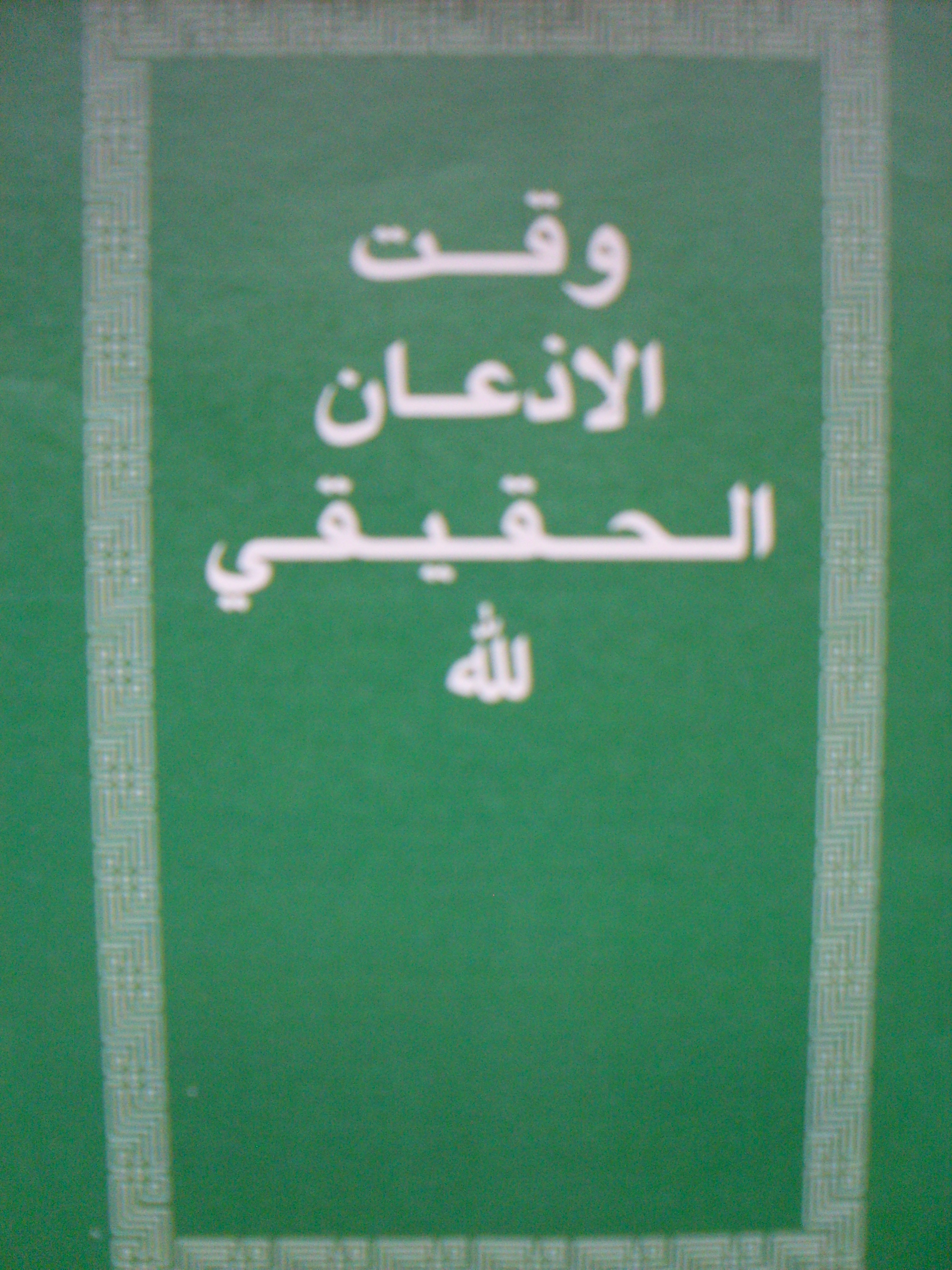 The Time for True Submission to God (Arabic)